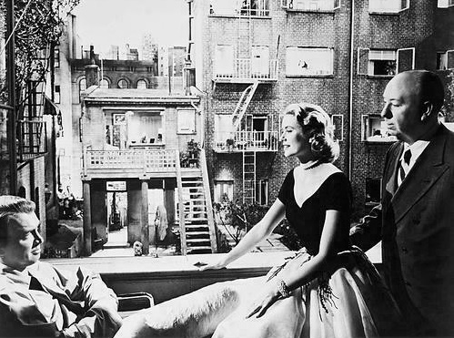 Photo of James Stewart, Grace Kelly & Alfred Hitchcock taken for film Rear Window (1954).